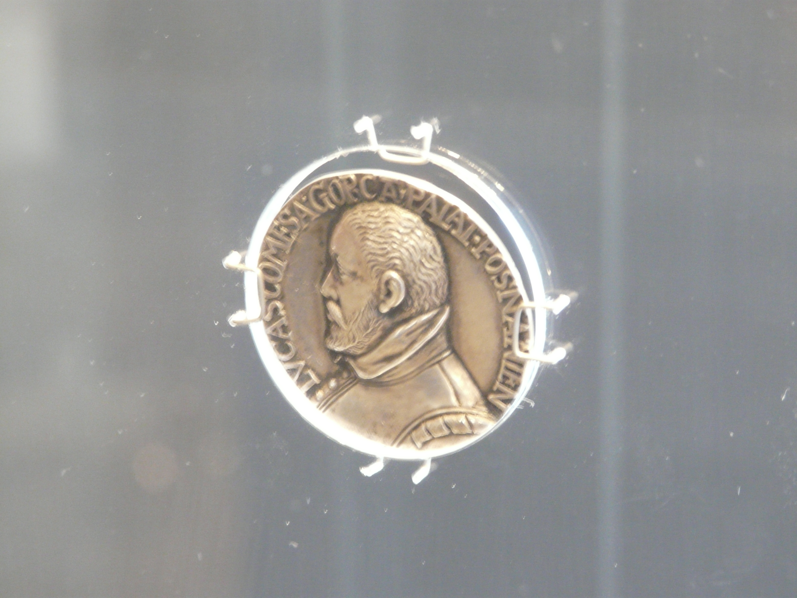 From the collection of the National Museum in Poznań. Łukasz Górka, 1571